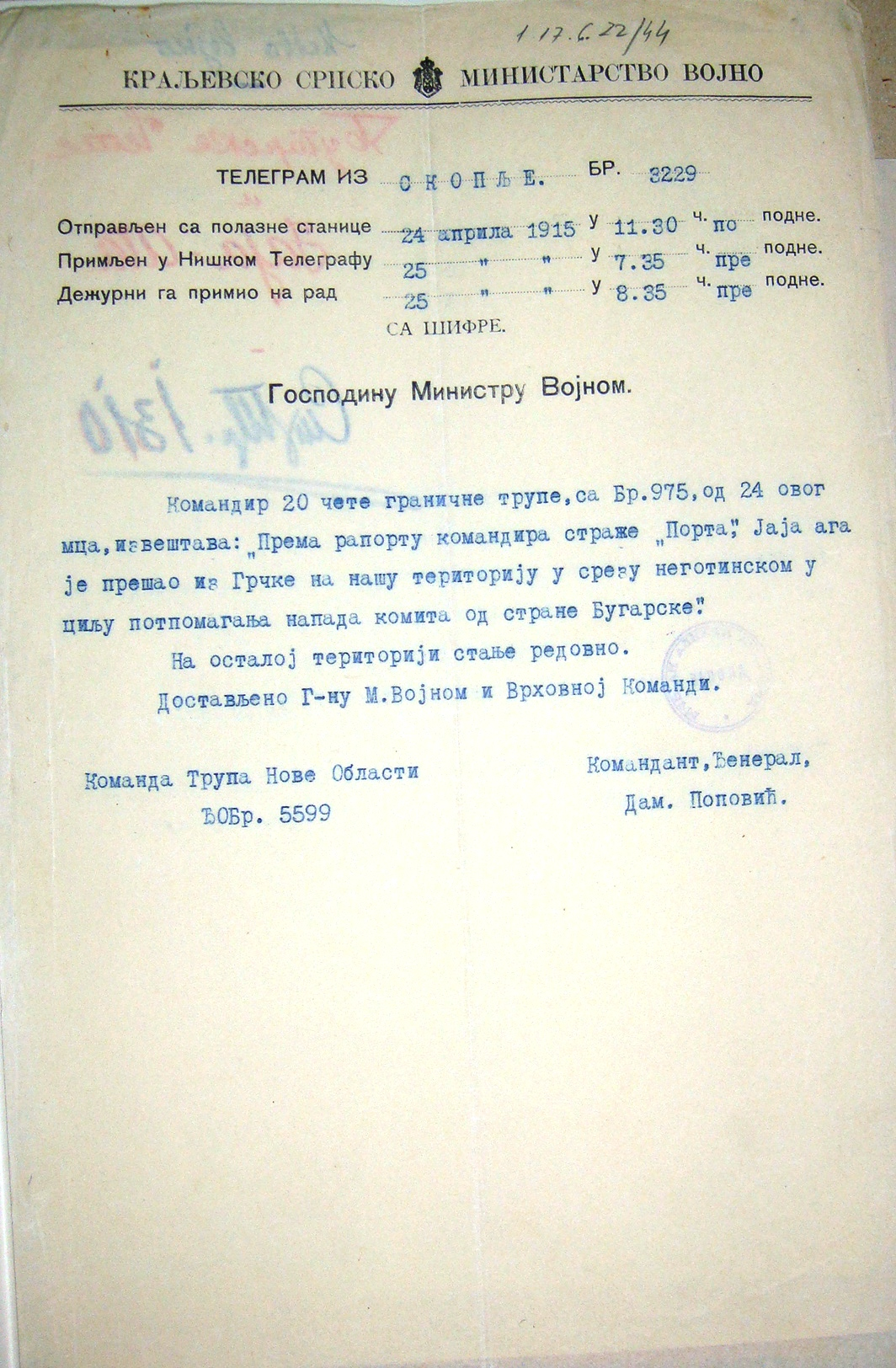 Telegram from Popovich, general commander of the troops of the new areas to the Military Ministry: information from the commander of the 20th brigade of troops about the border crossing of Yaya Aga from Greece on Serbian territory in Macedonia, in order to help the guerillas attack from Bulgaria. (Skopje, 24 April 1915) This media file is produced by Wikipedian in Residence in Category:Wikipedian in Residence at DARM in 2016.